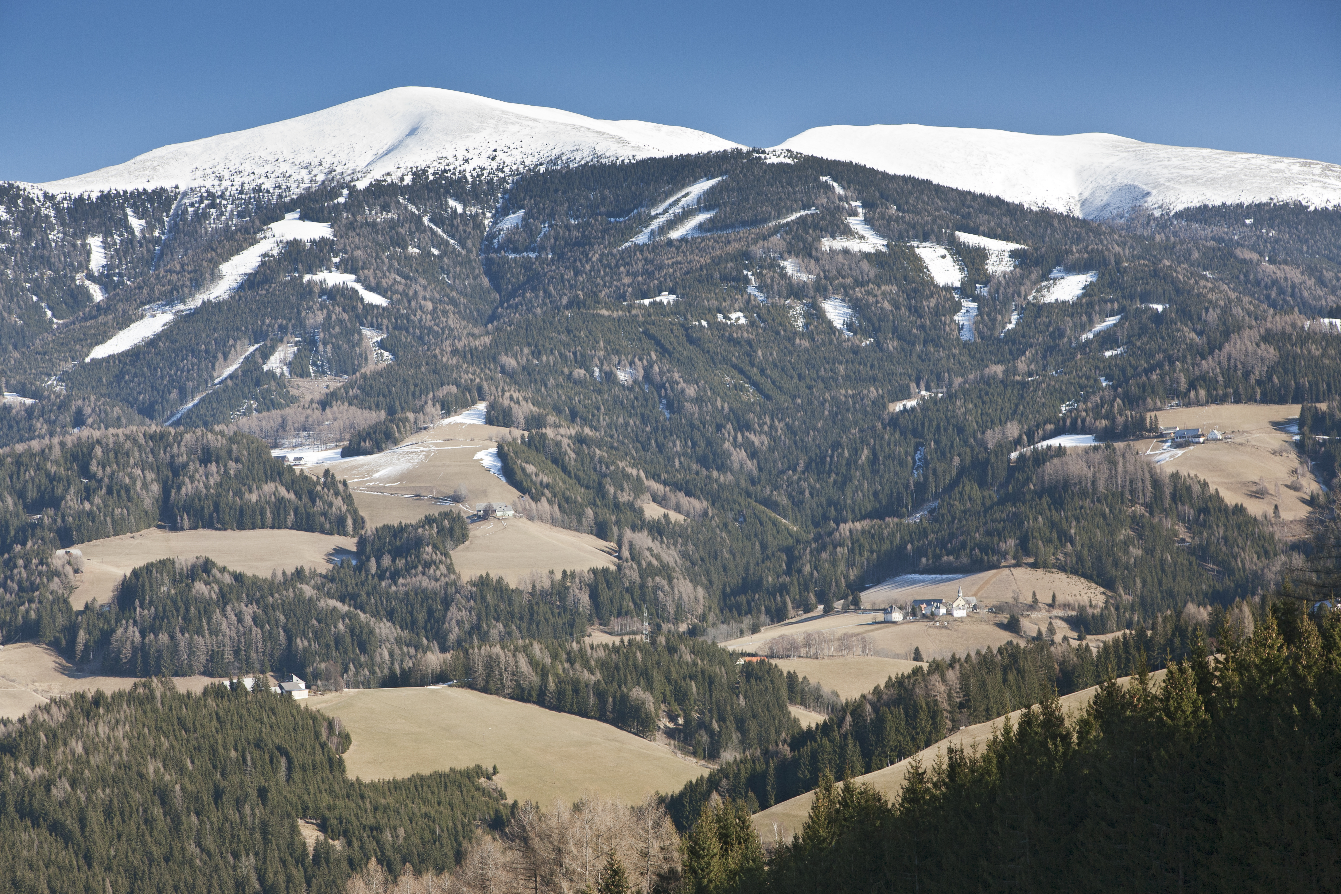 View of Sankt Georgen in Obdachegg with Größing and Ameringkogel